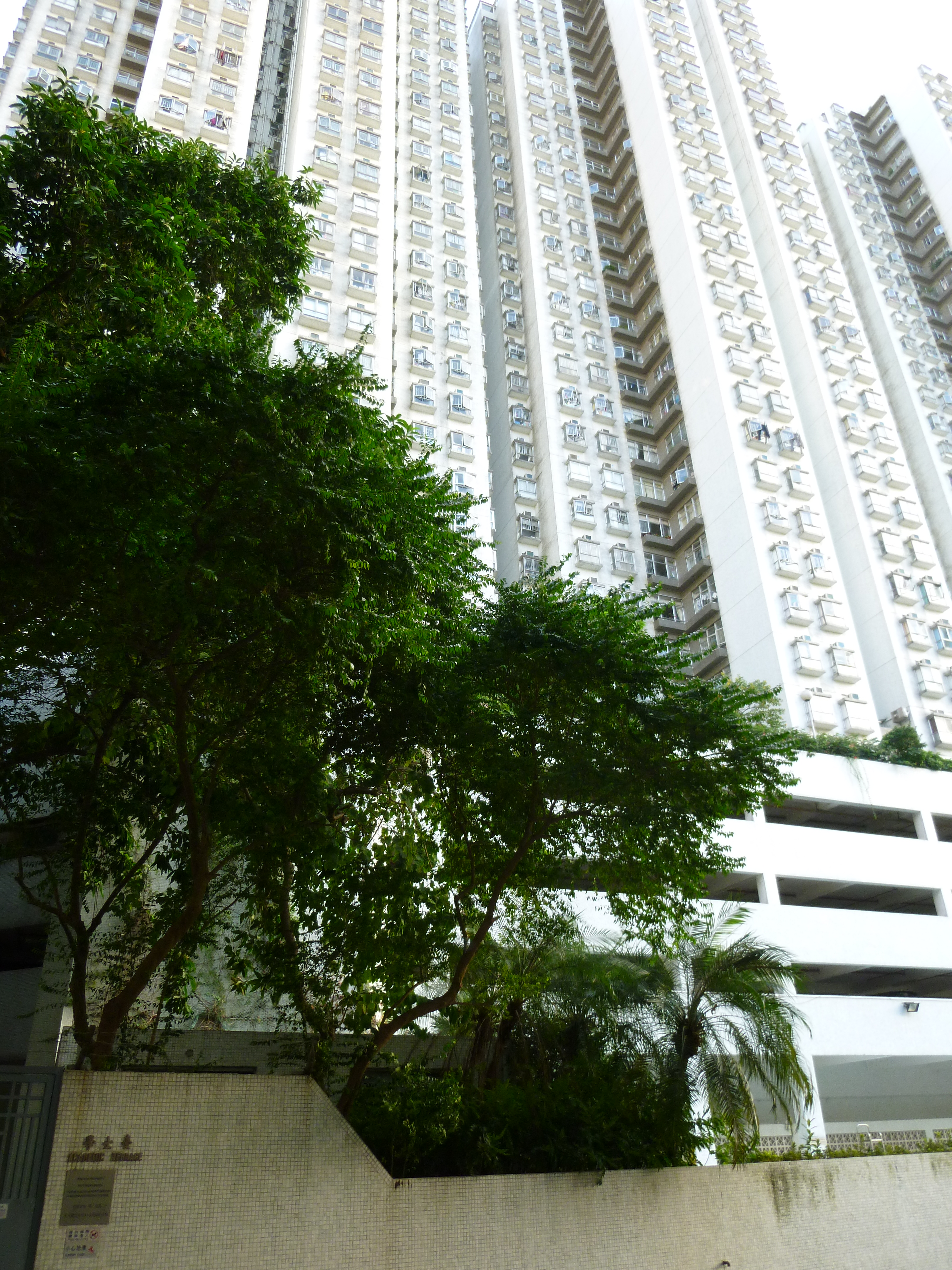 Academic Terrace (101 Pok Fu Lam Road, Kennedy Town, Hong Kong)